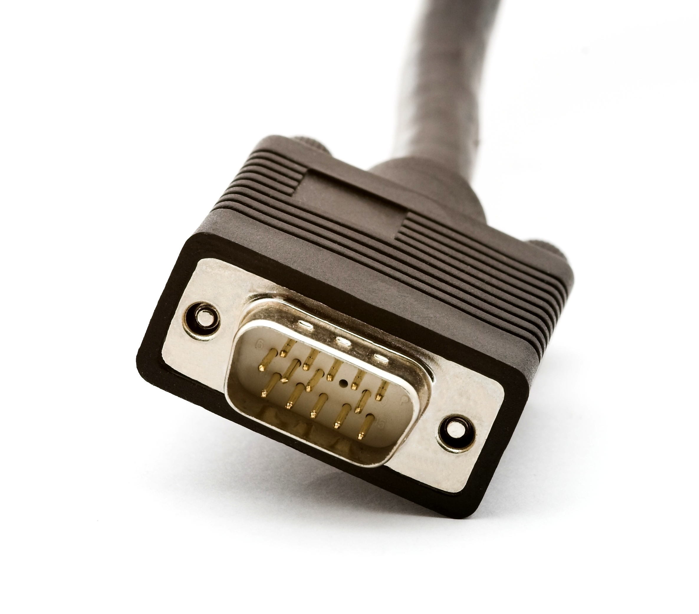 VGA connector, male.